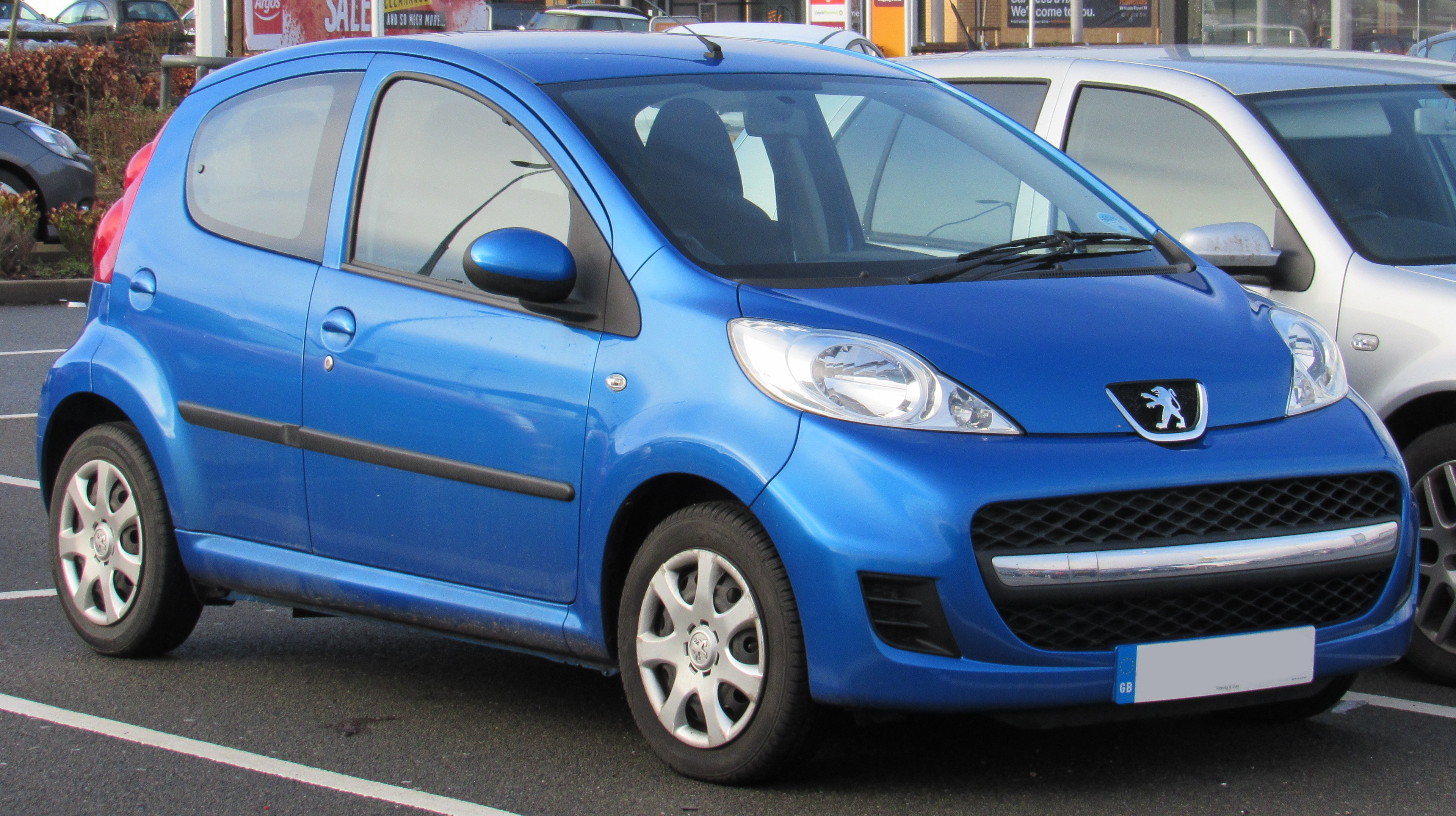 2010 Peugeot 107 Urban S-A 1.0 Taken in Leamington Spa